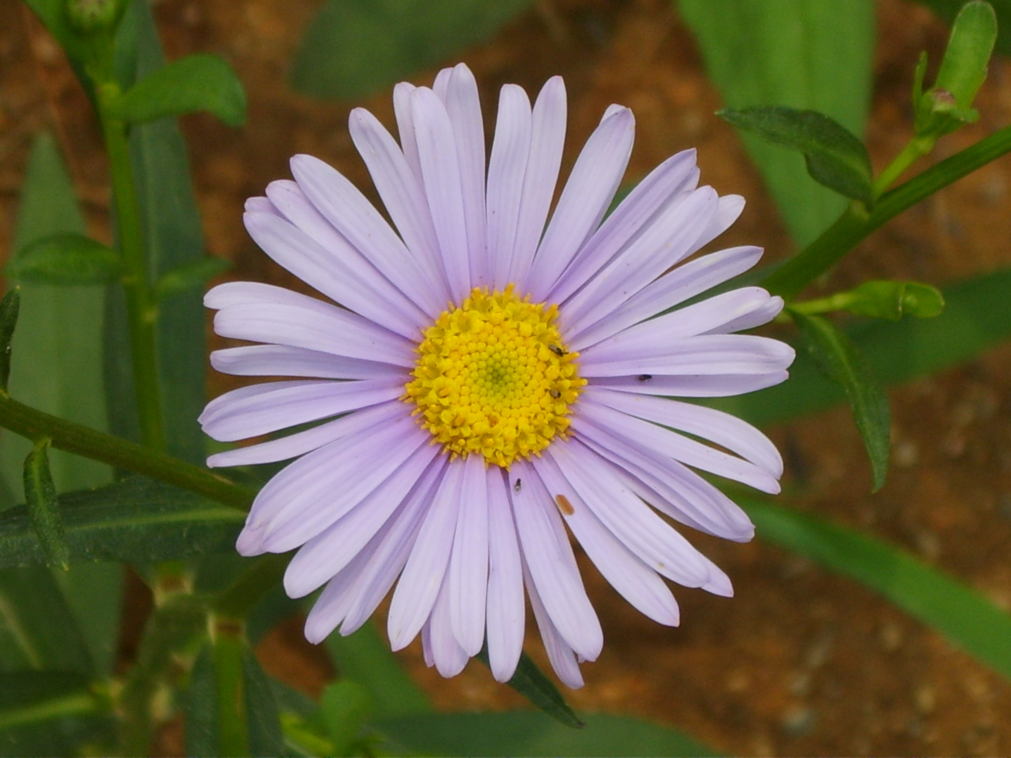 Aster koraiensis